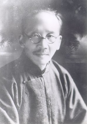 Cai Yuanpei